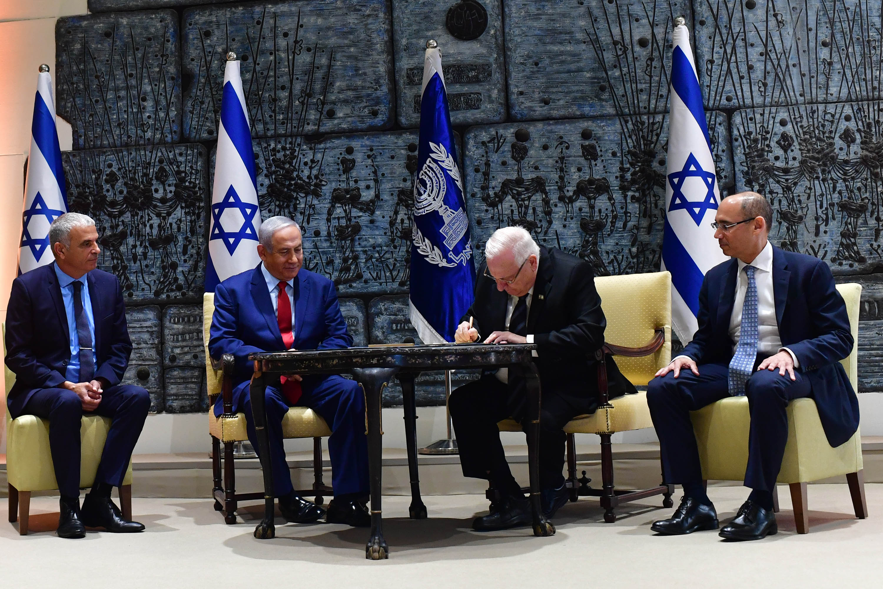 President of Israel, Reuven Rivlin, signing a letter of appointment of the incoming Governor of the Bank of Israel, Prof. Amir Yaron. Monday, December 24, 2018. Photo credit: Kobi Gideon / GPO.